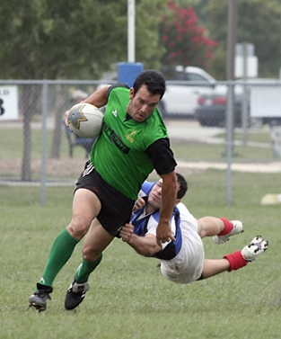 Mike G. of the Raleigh Vipers running through a tackle. Taken in Wilmington, NC (USA).